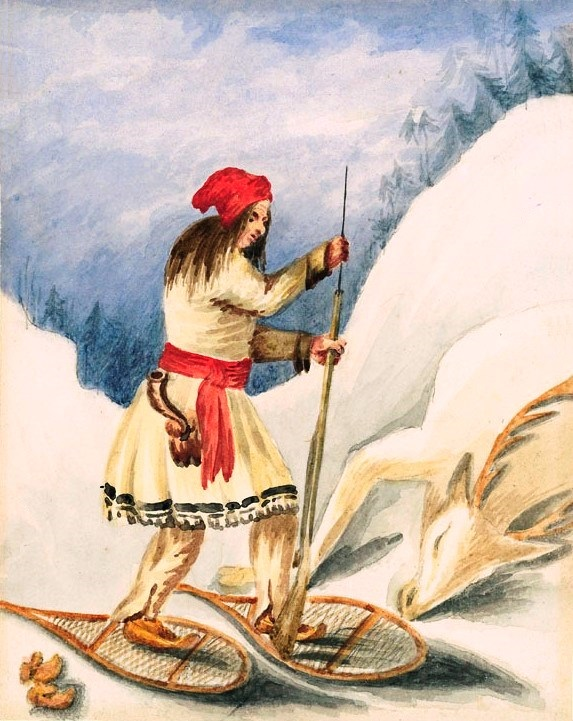 Portrait of Canadian Indian Nicolas Vincent wearing snowshoes by Philip J. Bainbrigge, watercolour; 12.7 x 10.2 cm. Item consists of a watercolour drawing of Nicolas Vincent of Indian Lorette, 1840, wearing snowshoes and loading a rifle.